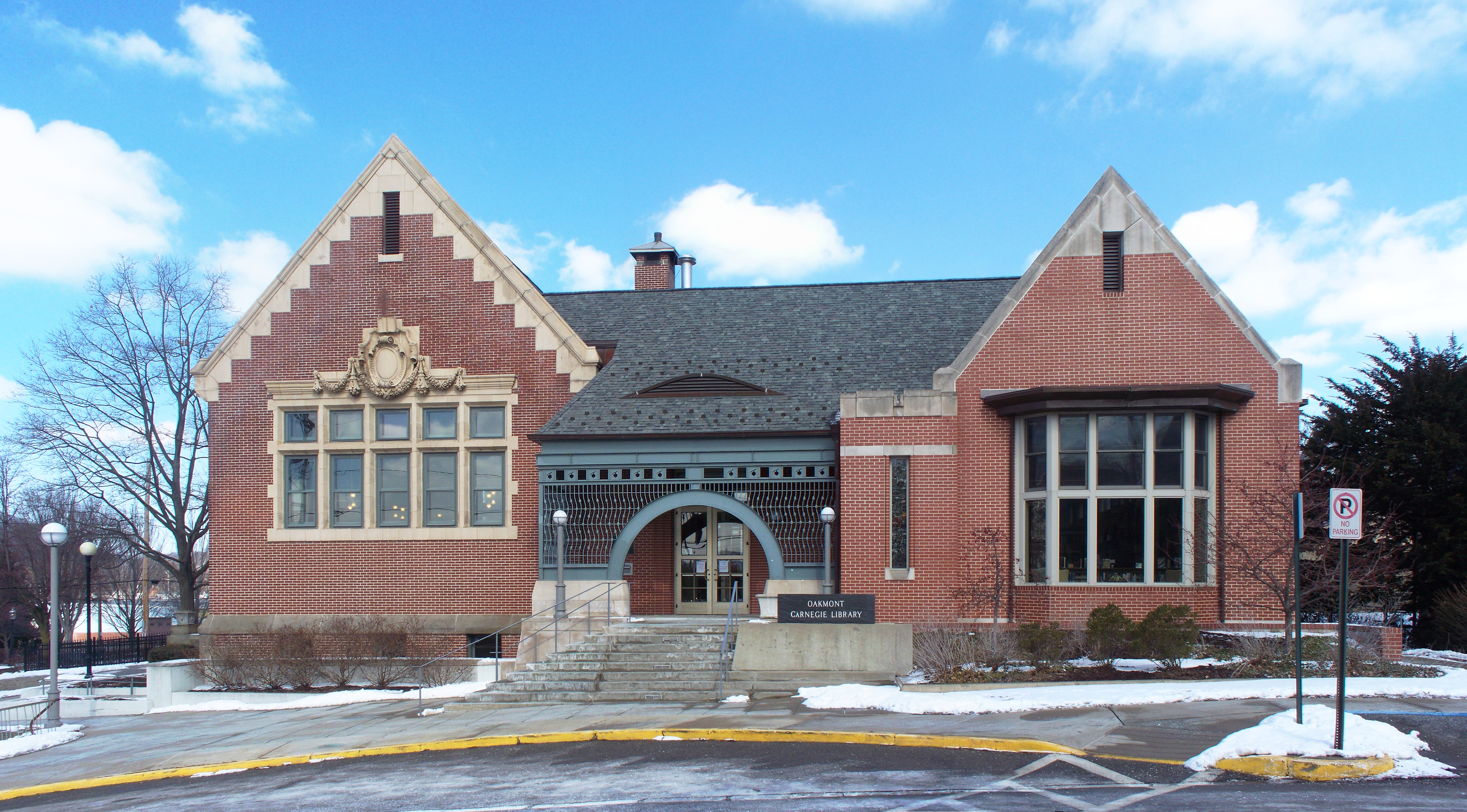 Carnegie Library in Oakmont (built 1900, expanded 2006)